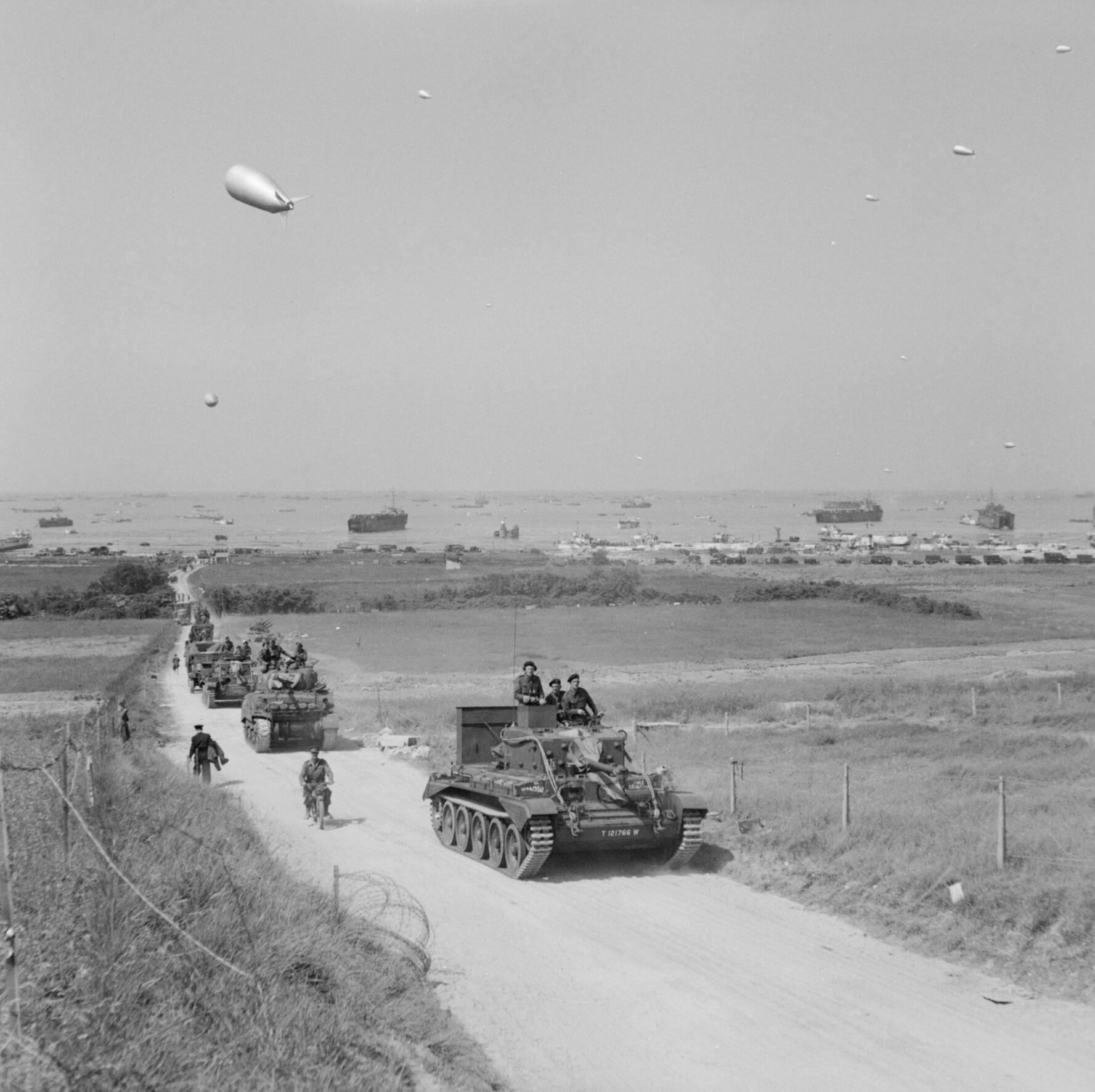 A Cromwell Mk V tank of 4th County of London Yeomanry, 22nd Armoured Brigade, 7th Armoured Division, leads a column of armour and soft-skin vehicles inland from Gold Beach, Normandy, 7 June 1944. A Cromwell Mk V tank of 4th County of London Yeomanry, 22nd Armoured Brigade, 7th Armoured Division, leads a column of armour (including a Sherman Firefly immediately behind) and soft-skin vehicles inland from King beach, Gold area, 7 June 1944.